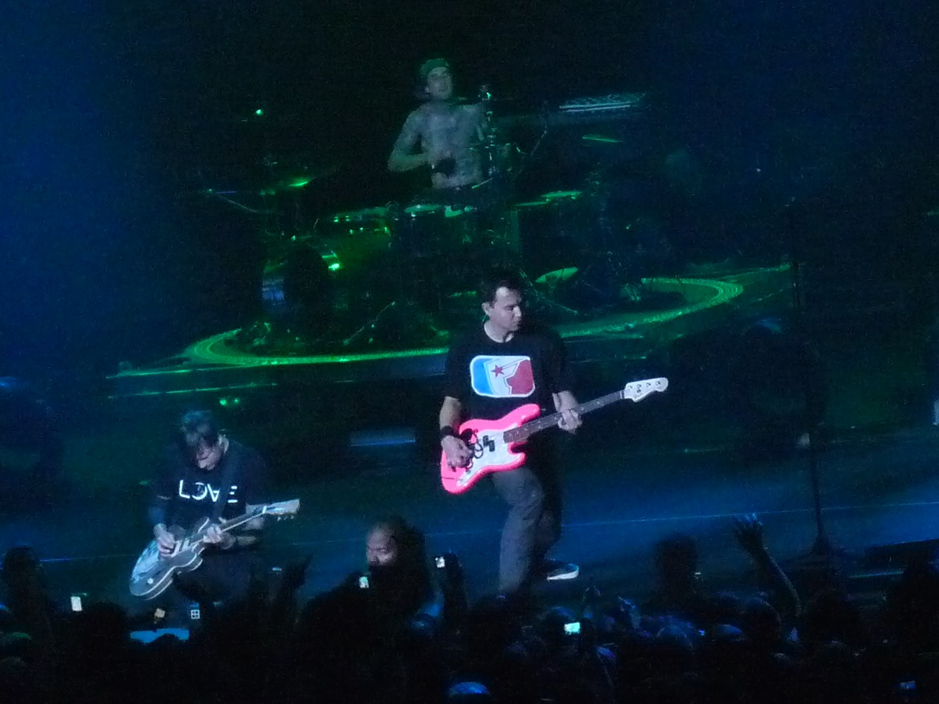 Blink-182 in concert, Las Vegas NV